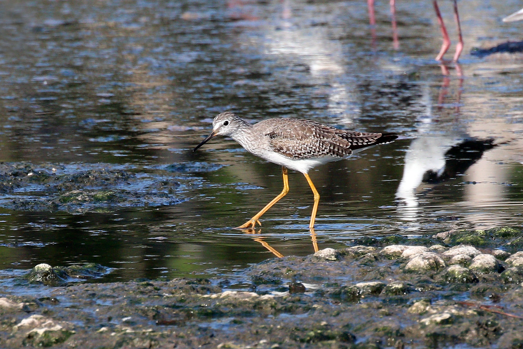 Lesser yellowlegs (Tringa flavipes), Cuba